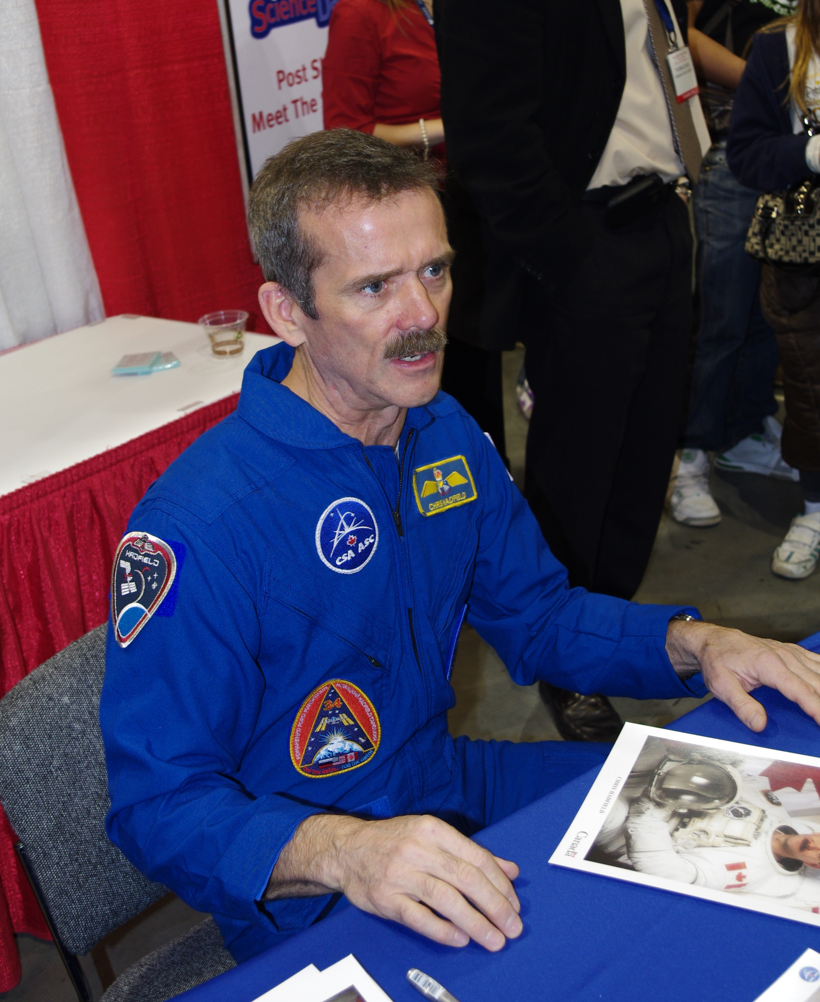 Chris Hadfield during the Family Science Days at the Annual Meeting of the American Association for the Advancement of Science (AAAS) in Vancouver, British Columbia, at the Vancouver Convention Centre